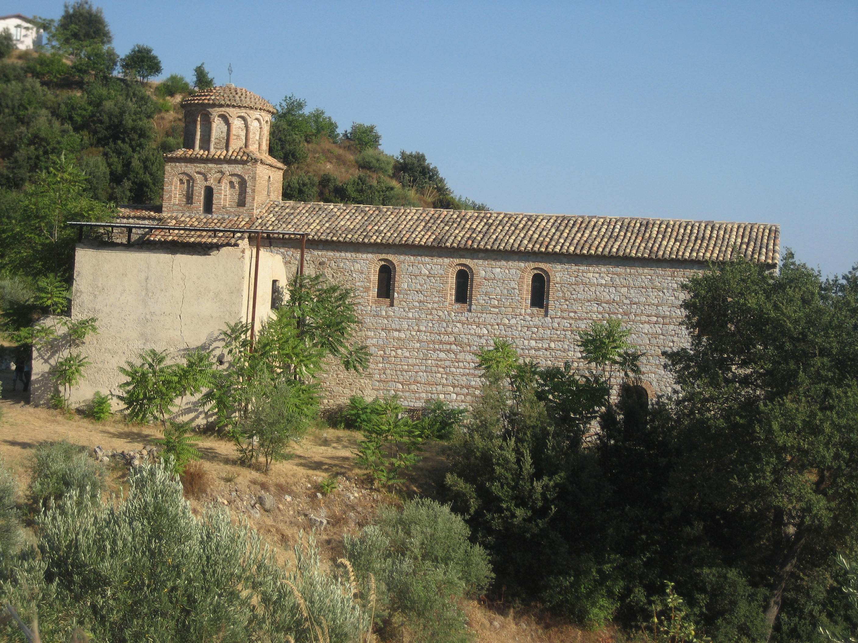 Greek Orthodox Monastery of Saint John Theristis, Bivongi, province of Reggio Calabria, Italy.